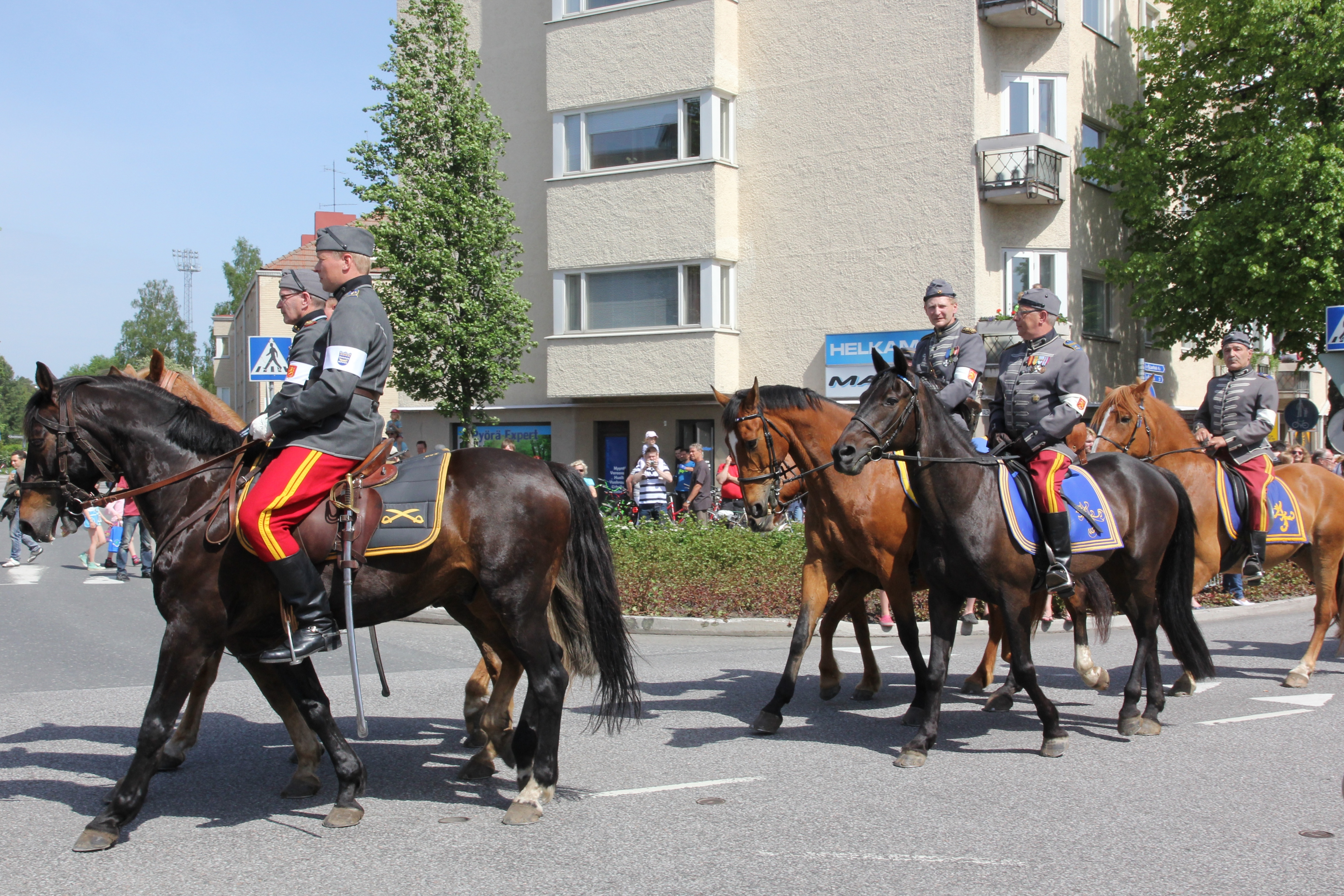 Dragoon heritage guild during the Finnish military Flag Day 2014 parade along Valtakatu street in Lappeenranta.